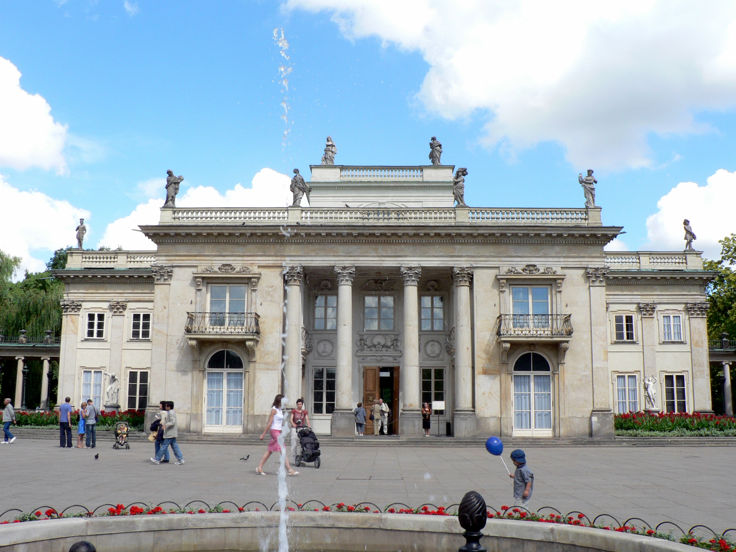 Łazienki Palace, Warsaw, Poland